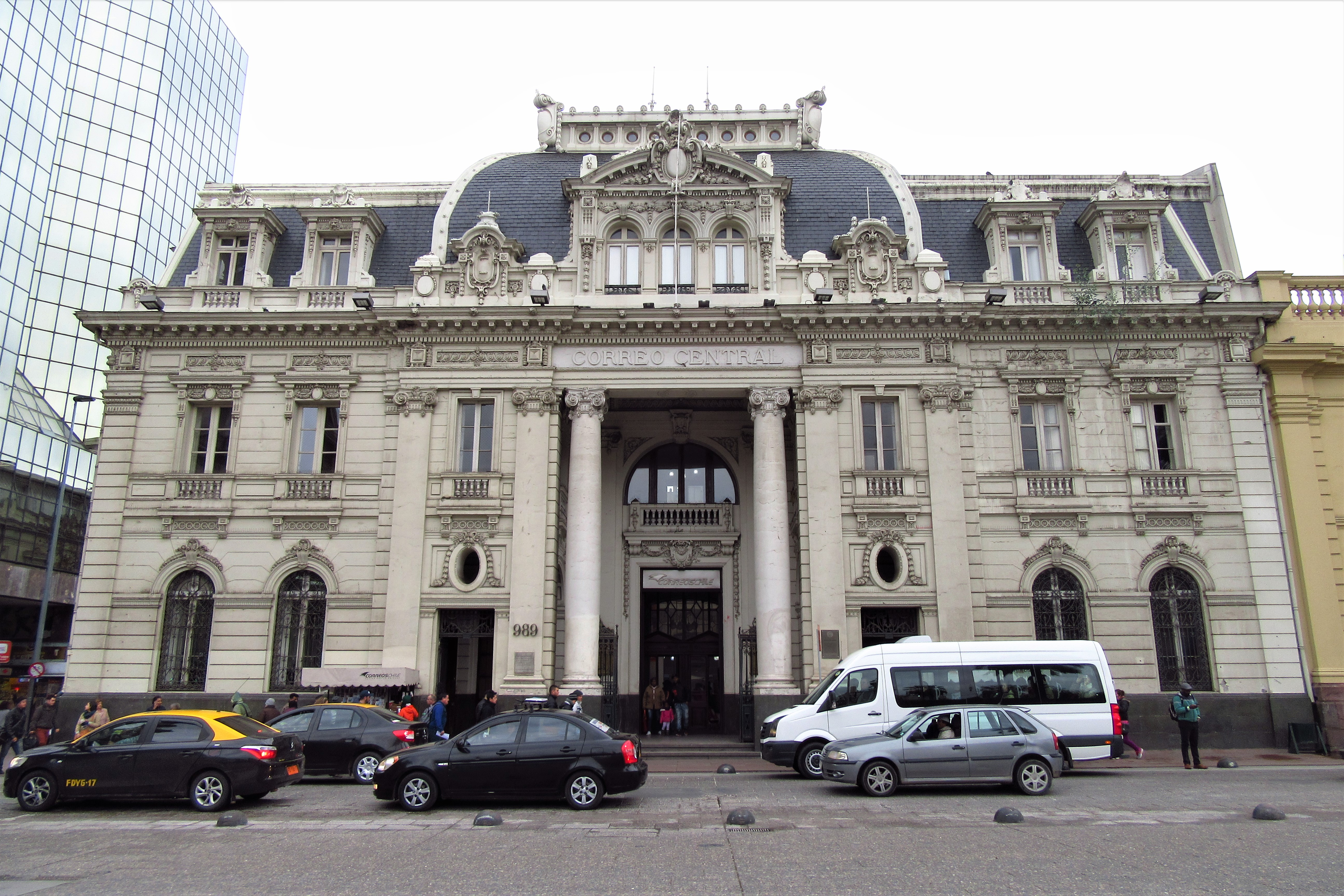 2017 in Santiago de Chile